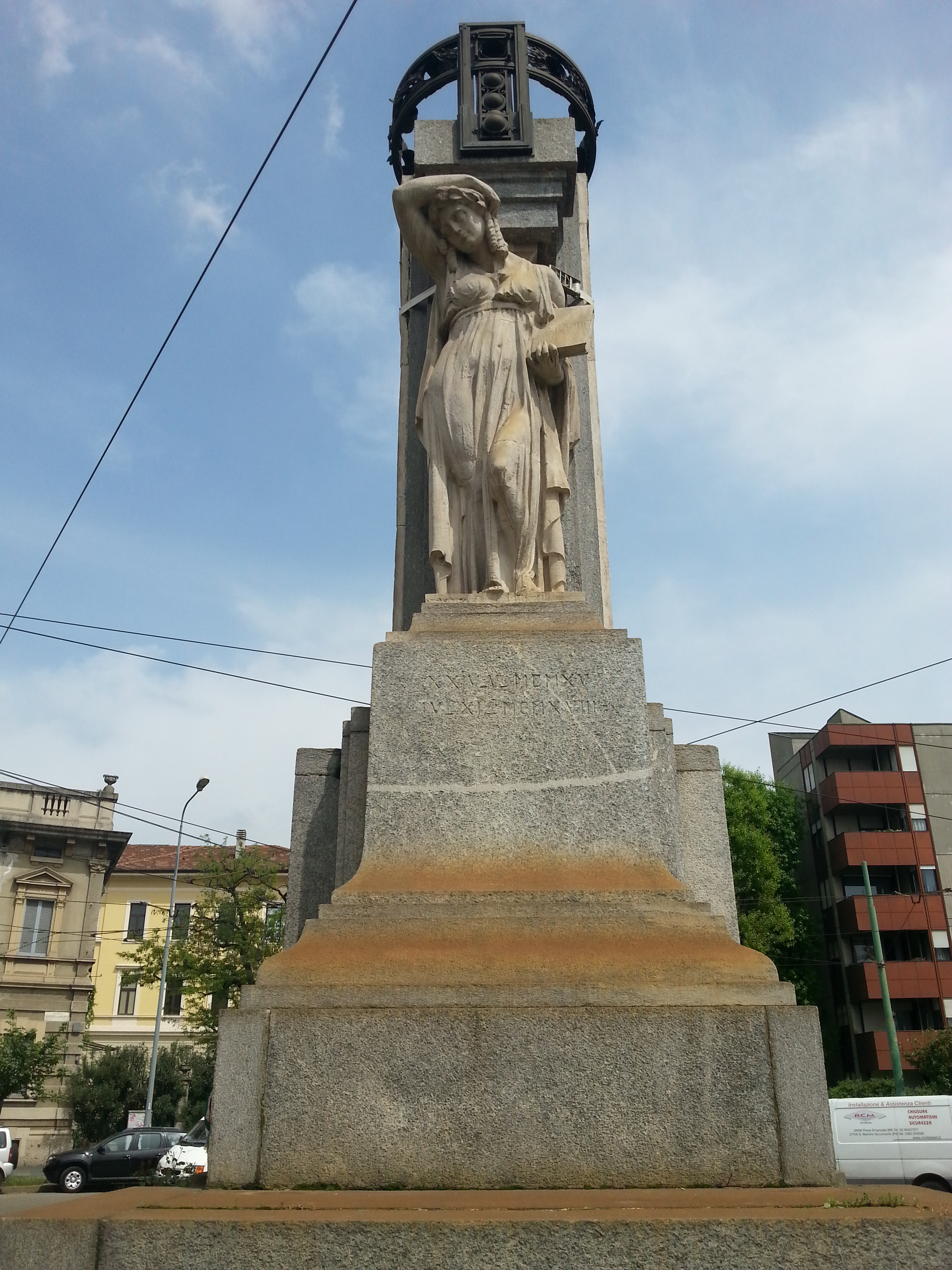 War Memorial of Musoocco, the statue History frontally